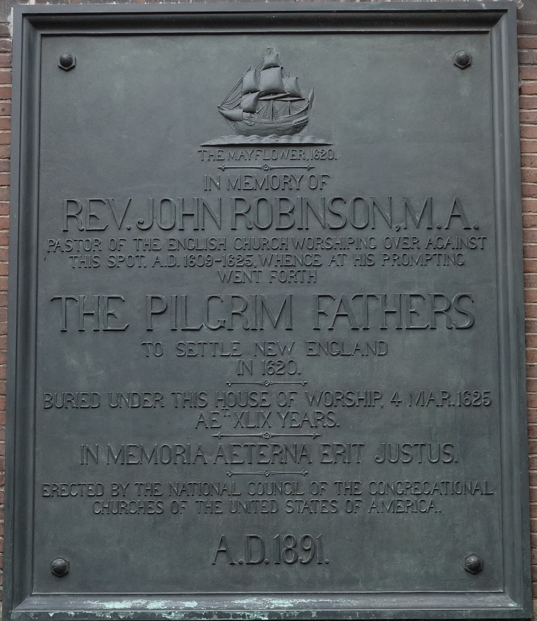 Plaque commemorating the Pilgrim Fathers at the Pieterskerk in Leiden.